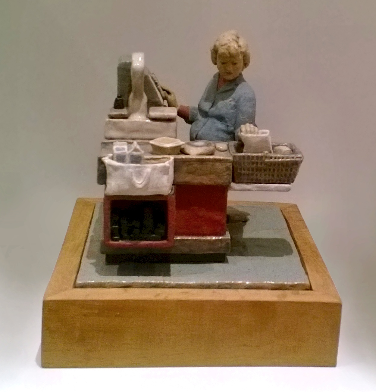 Photograph of a statuette called Leena, depicting a cashier in a supermarket, by Outi Leinonen, the Finnish sculptor.